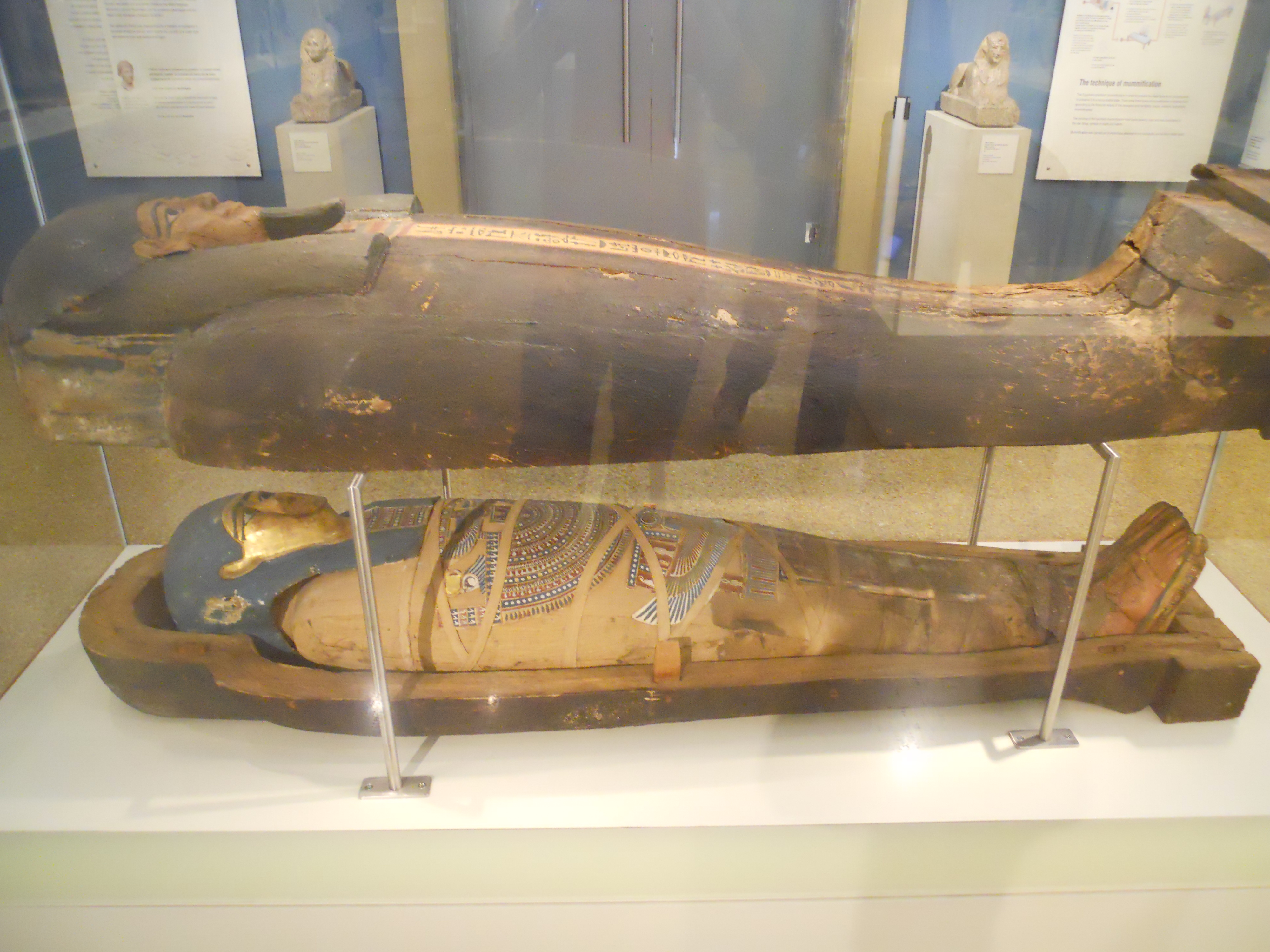 Egyptian Mummy